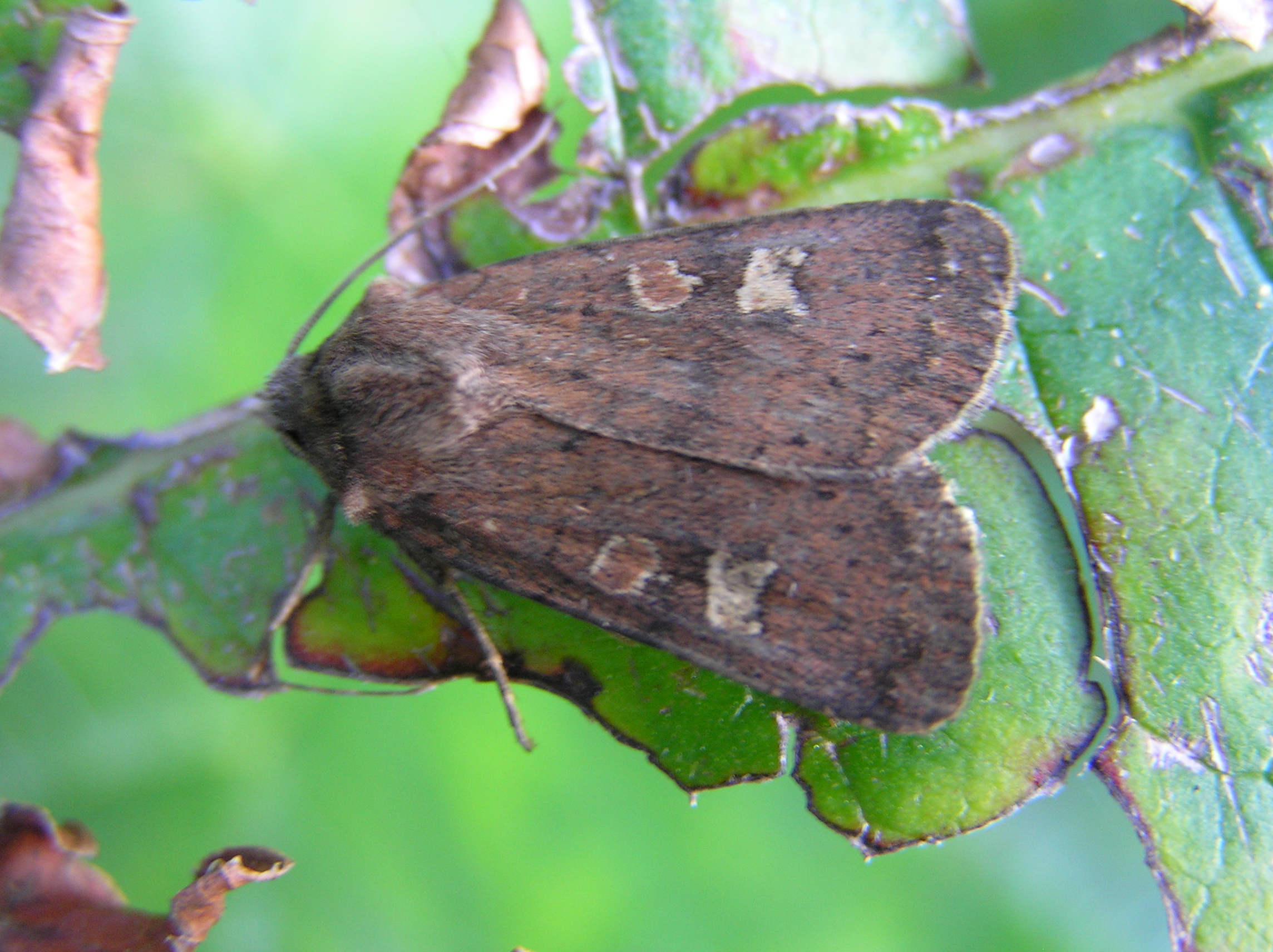 Xestia Xanthographa (Goes, the Netherlands)